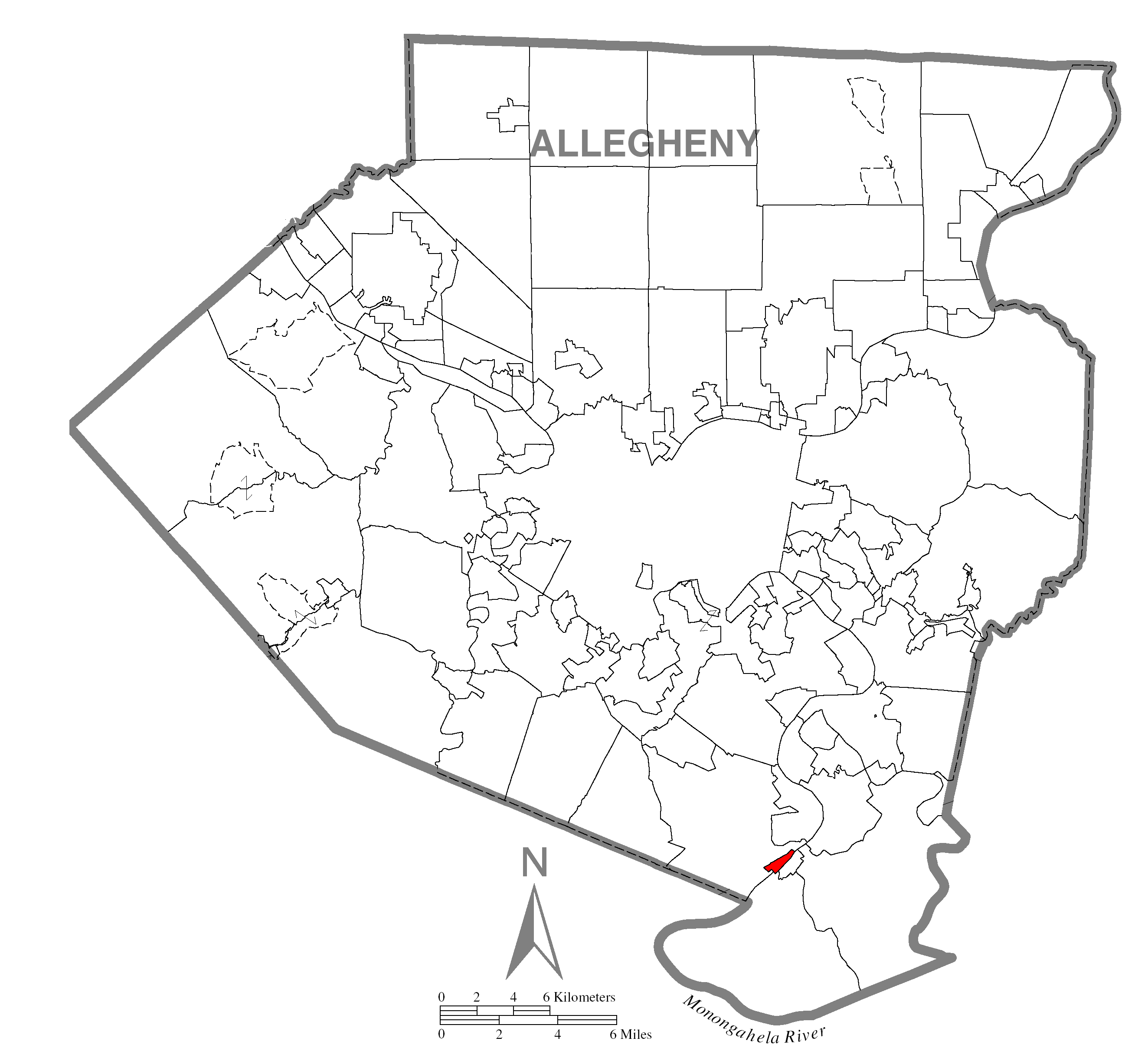 A map of Allegheny County showing West Elizabeth, Pennsylvania (alternate) highlighted on the map.